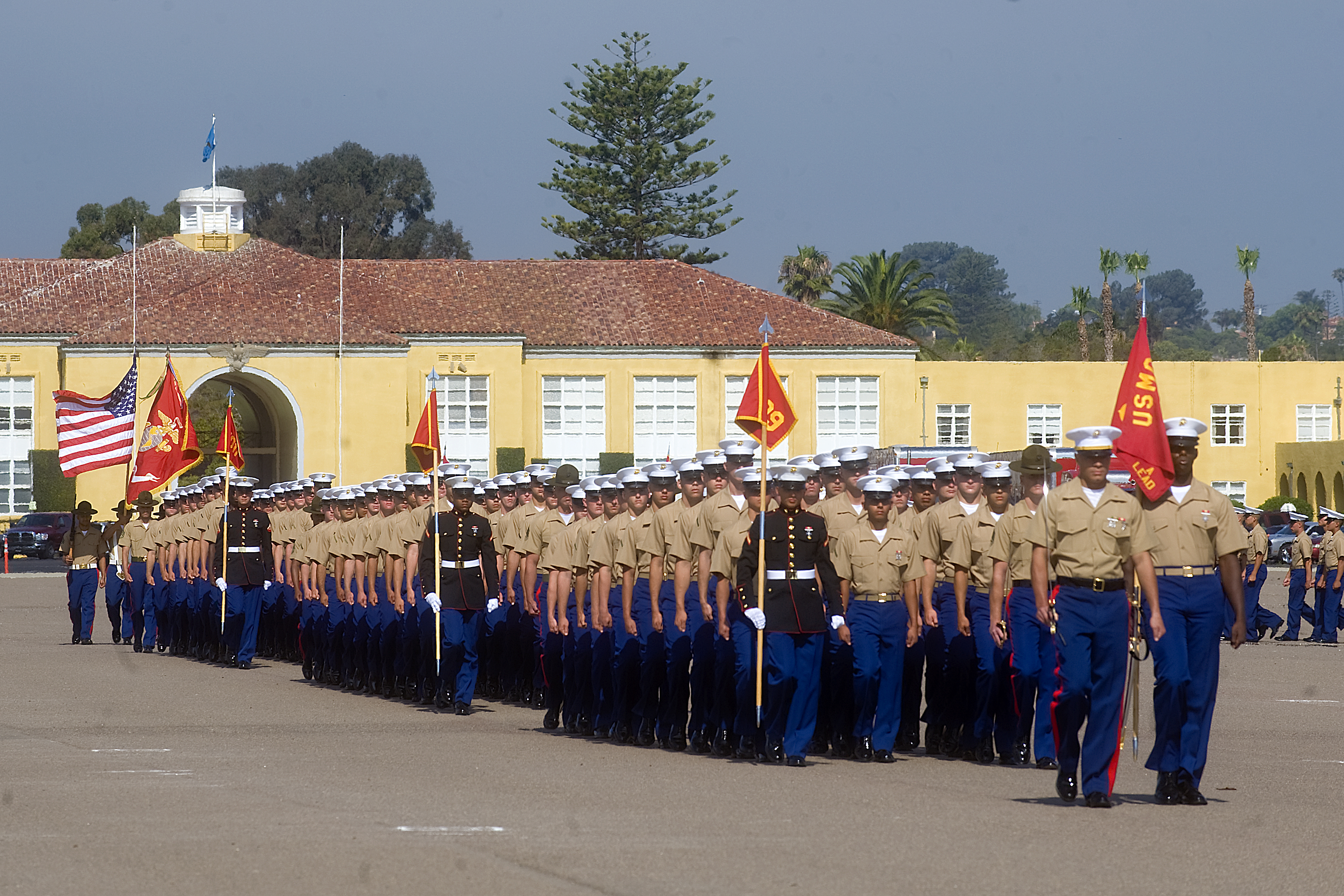 Newly enlisted Marines conduct a pass in review during their graduation ceremony at the Marine Corp Recruit Depot in San Diego, Aug. 13, 2010. Defense DoD photo by Cherie Cullen